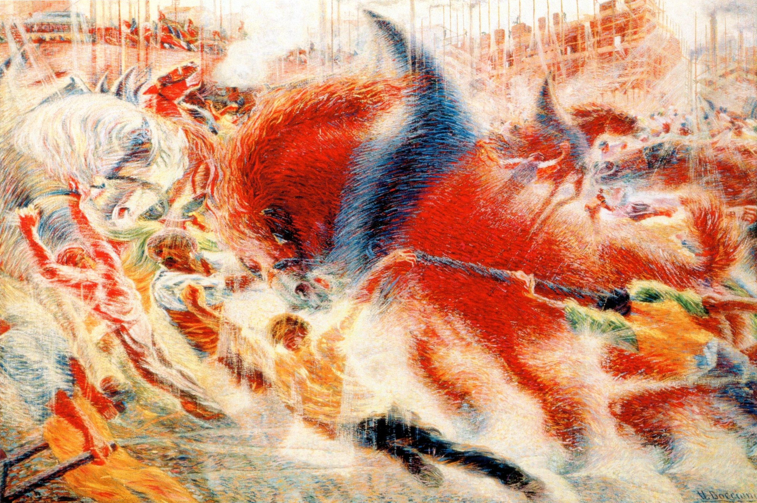 Famous Futurist painting